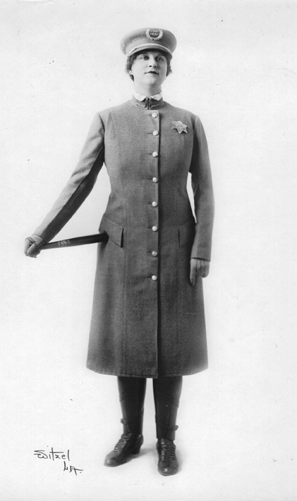 Portrait of American actress and policewoman Blanche Payson (1881–1964)